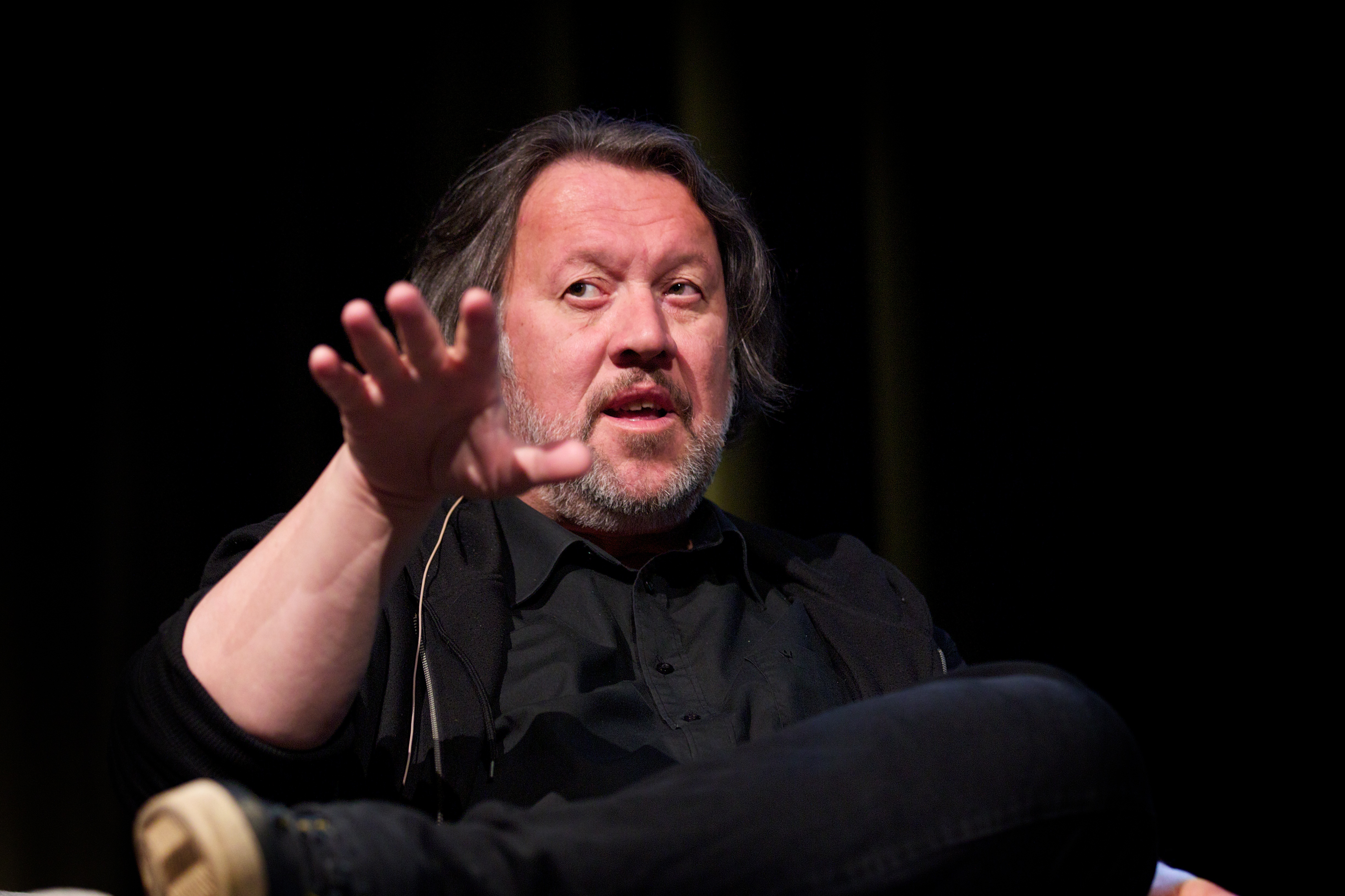 Bjørn Eidsvåg under Nordiske Mediedager 2010. Foto: Eirik Helland Urke (1974–) DescriptionNorwegian photographerDate of birth 1974 Location of birth Stokmarknes Authority control : Q56810802 VIAF: 7154257962424152696 BIBSYS: 1535375976708 creator QS:P170,Q56810802